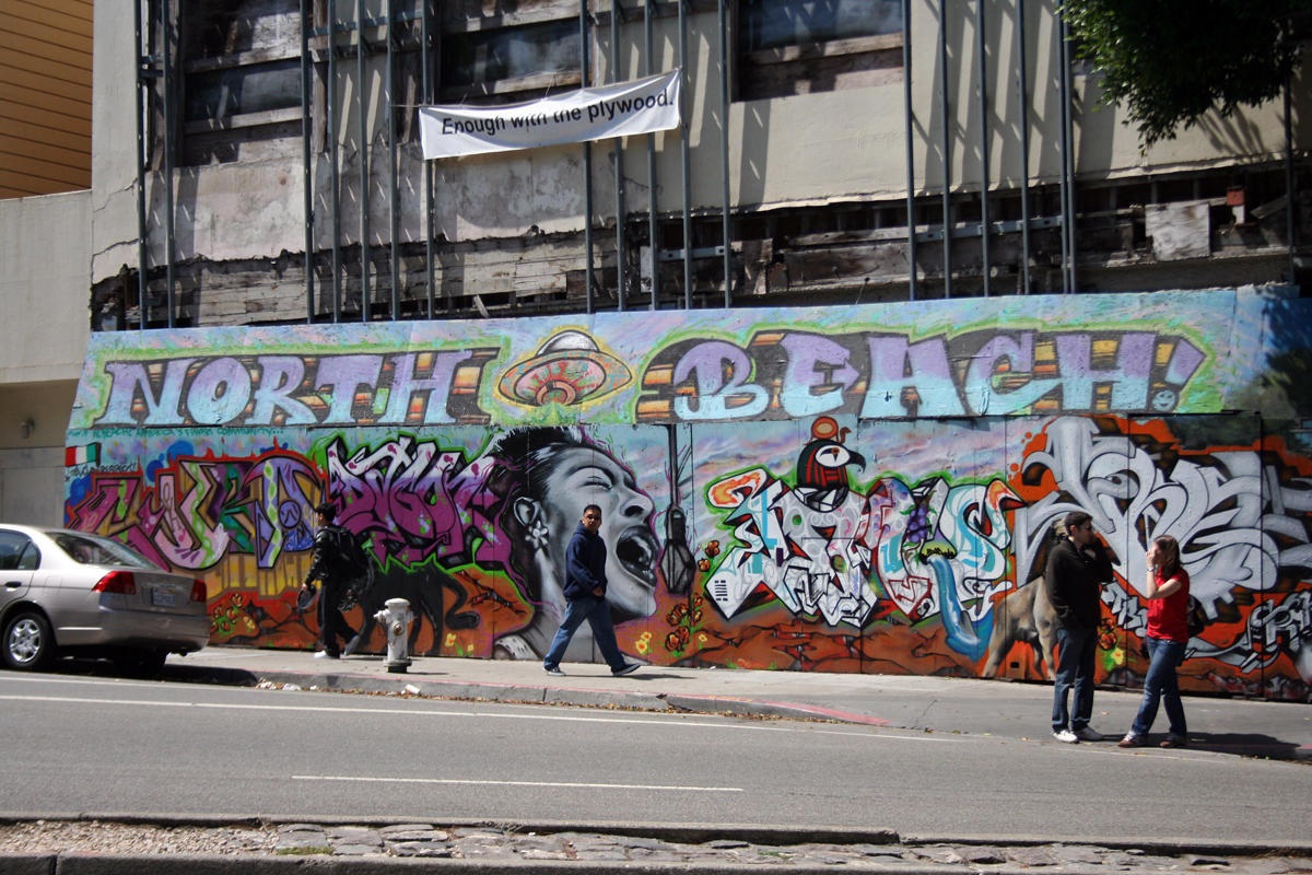 Exterior of the former Pagoda Palace Theatre in North Beach (near the intersection of Powell and Columbus).